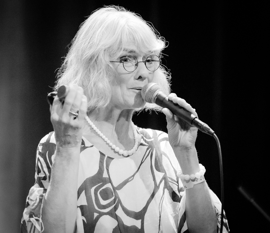 Anne Marie Giørtz with Desafinado at Victoria Teater. The concert was part of Oslo Jazzfestival 2018 and took place on 15. August 2018 in Oslo. Lineup: Anne Marie Giørtz (vocal) Morten Halle (saxophone) Sveinung Hovensjø (bass guitar) Bugge Wesseltoft (piano) Celio de Carvalho (percussion) Kenneth Ekornes (drums) Tom Lund (guitar)